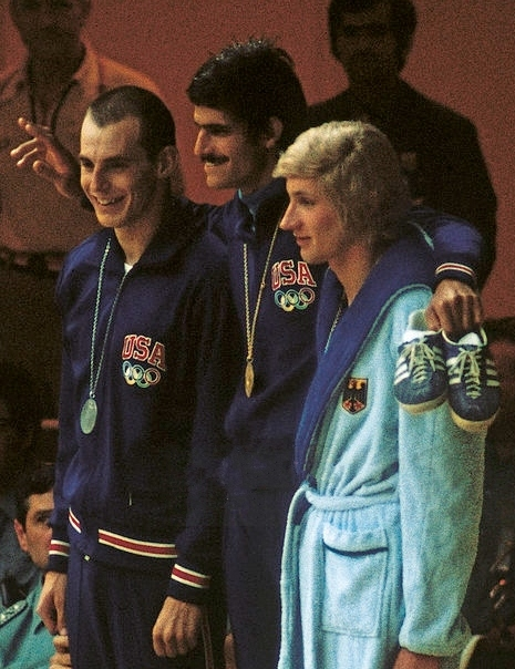 The two US swimmers Mark Spitz and Steve Genter, and the German Werner Lampe pose for the official photos after having received the medals of the 200 metres freestyle final race. On the close-up, from the left, Steve Genter with the silver medal, Mark Spitz with the gold medal and Werner Lampe with the bronze medal.This is the third of the seven final races of Spitz at the Olympic games. He won them all by setting a world record. Munich, August 29, 1972.